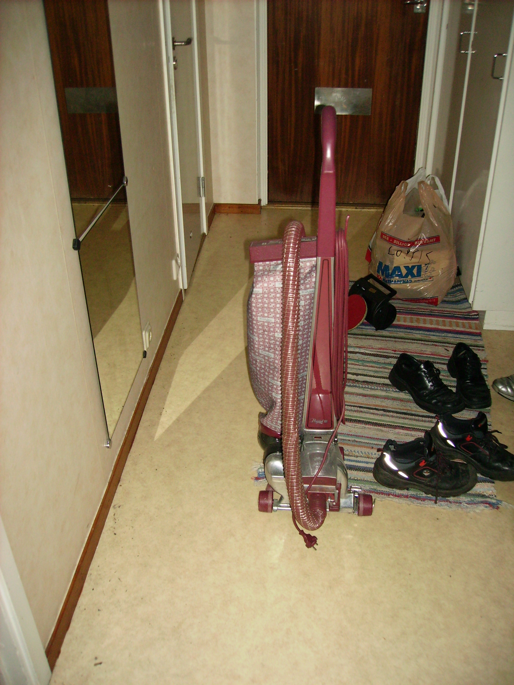 A Kirby model Legend II vacuum cleaner